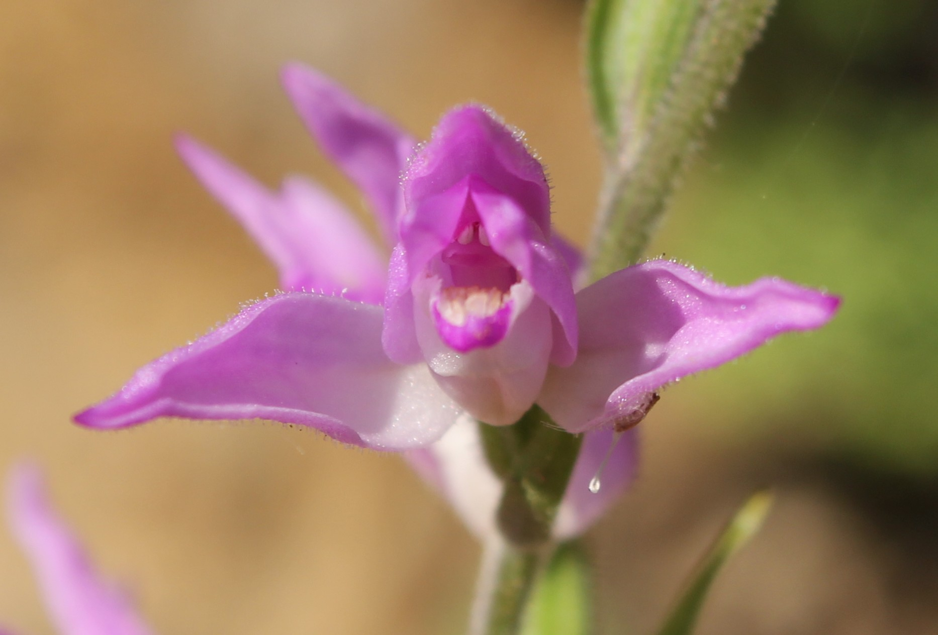 Cephalanthera rubra labellum